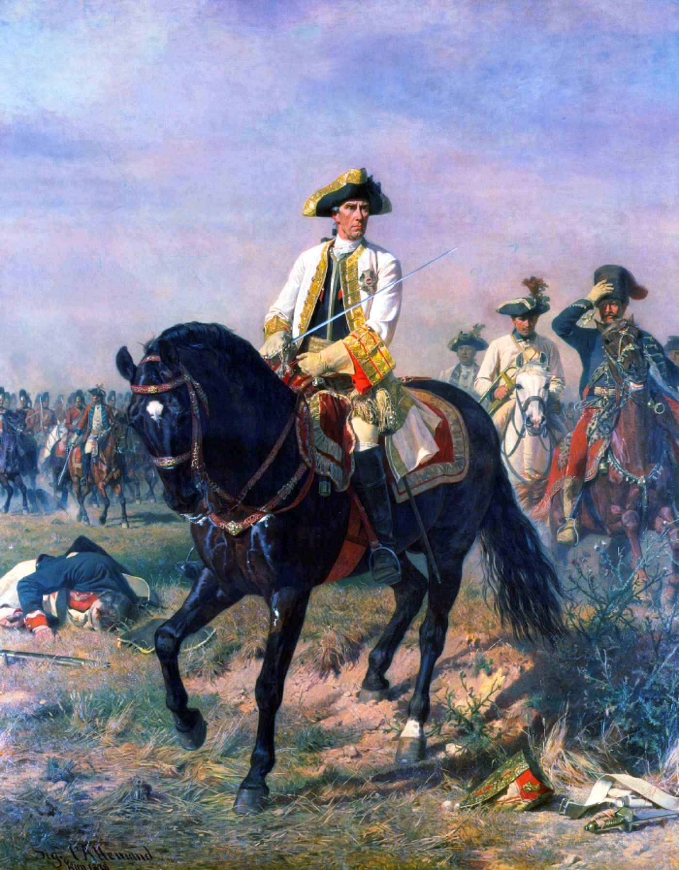 Gideon Ernst von Laudon after his victory at the Battle of Kunersdorf (1759)